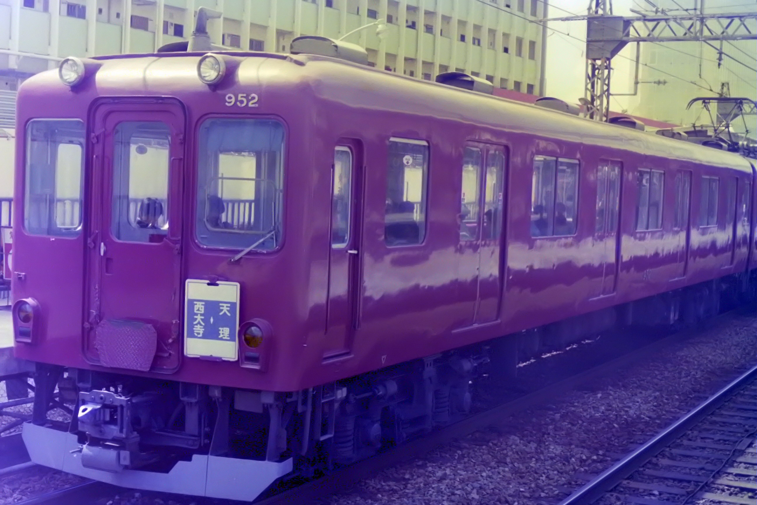 A Kintetsu 900 series EMU at Yamato-Saidaiji Station